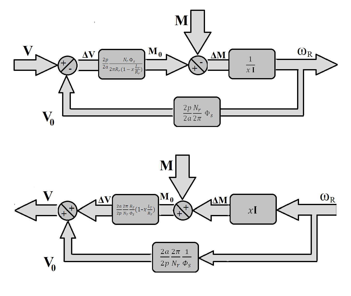 Black box model of the cc machine: at the top is the motor one, at the bottom the generator one